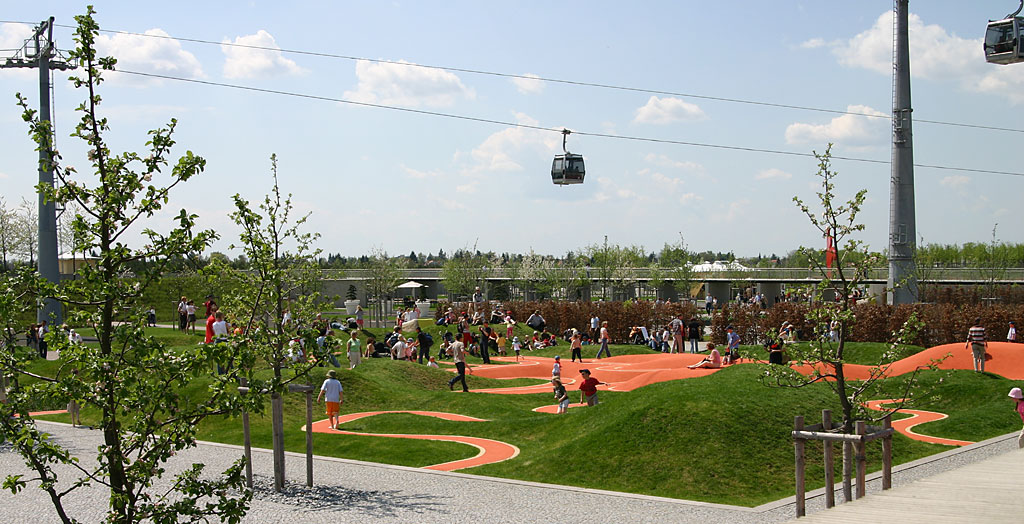 Bundesgartenschau 2005 in Munich, Bavaria.